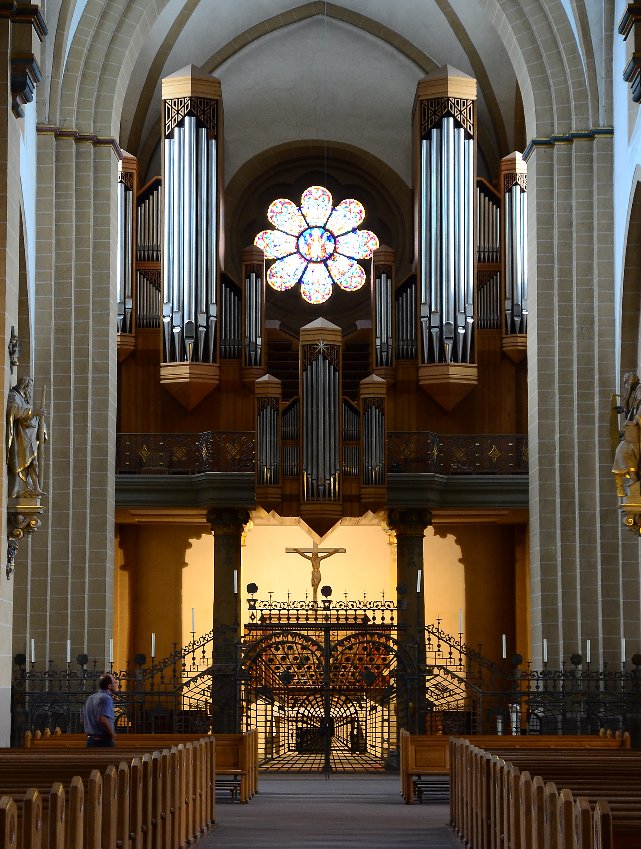 Paderborn Cathedral, Tower organ supported by four pillars. Including the Margaret altar behind a perspective grid, Paderborn, North Rhine Westphalia, GermanyThis is a photograph of an architectural monument., no. 3